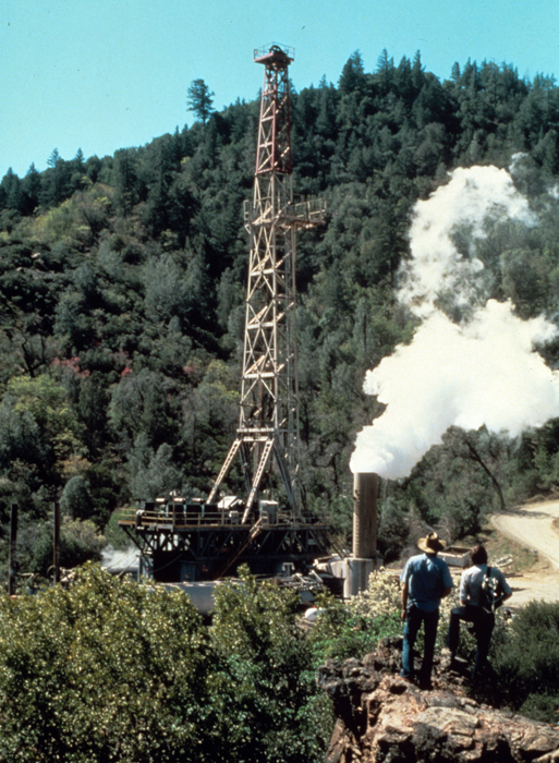 Drilling the AMINOIL geothermal well at Lincoln Rock, Sonoma County, California, USA